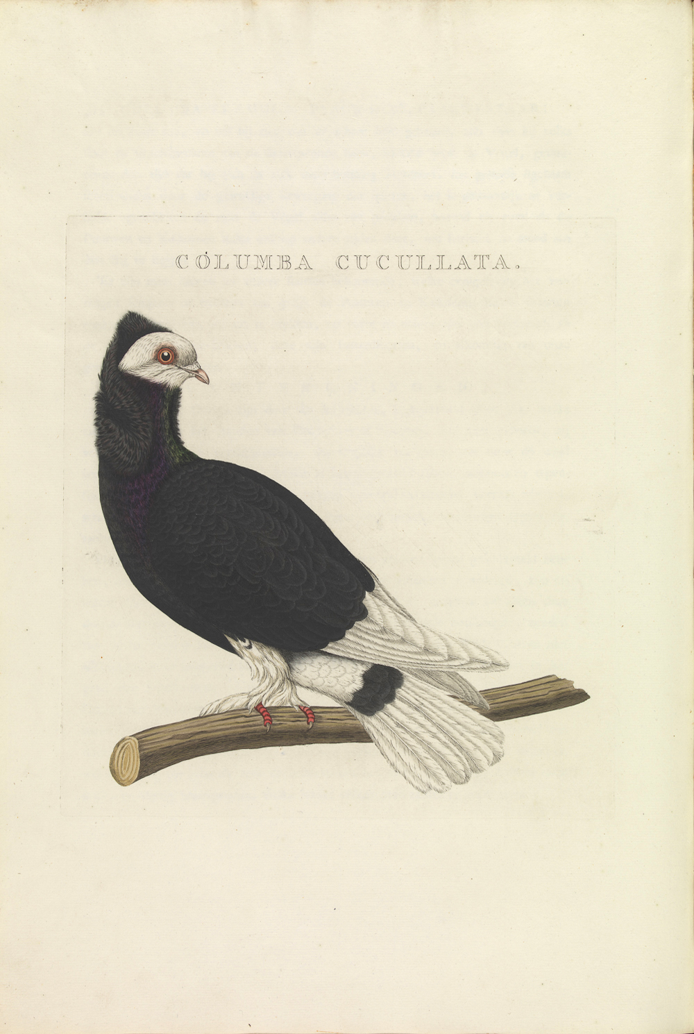 Plate 211 from the Nederlandsche vogelen by Nozeman and Sepp.